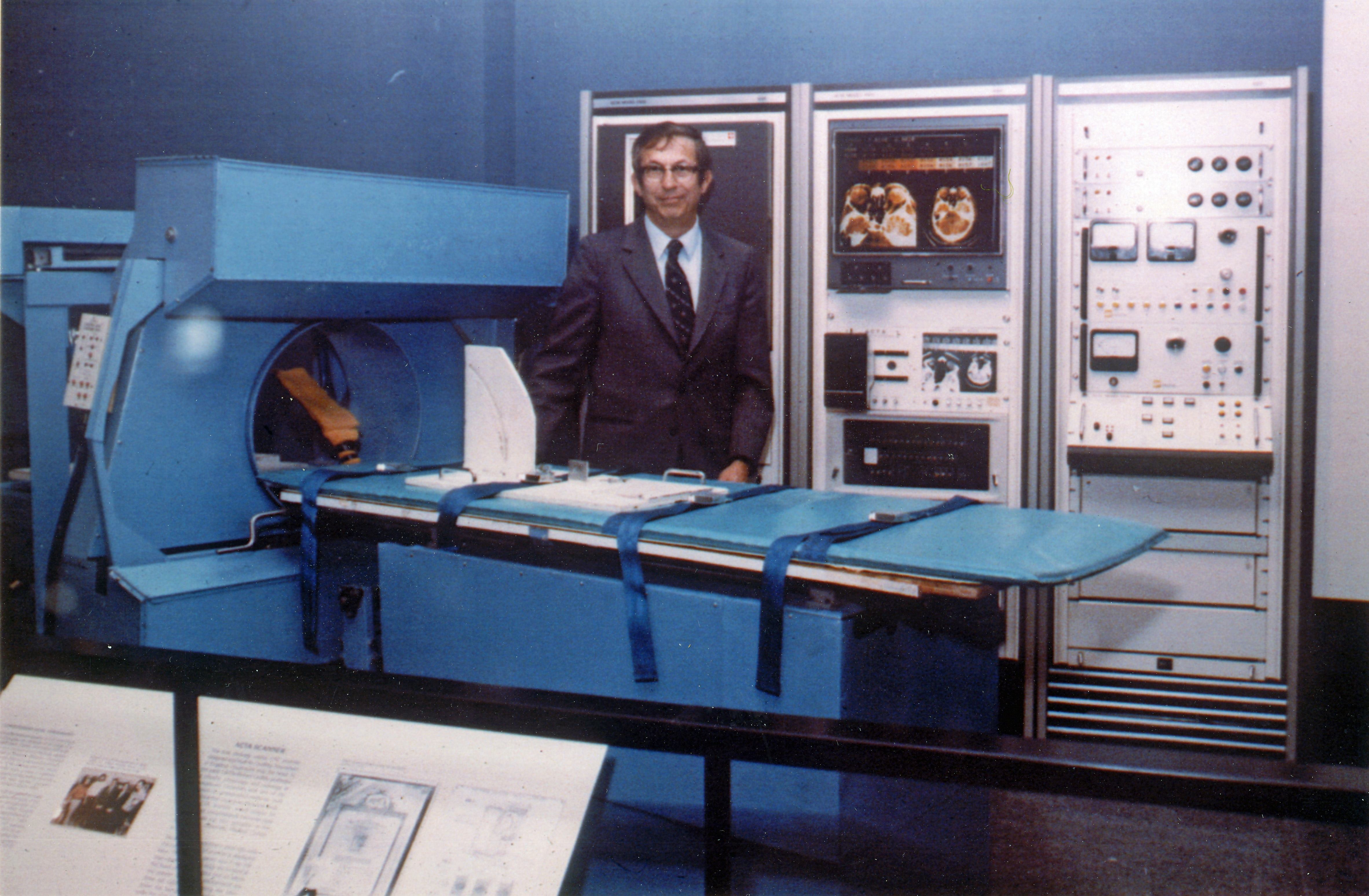 Robert Ledley with ACTA at Smithsonian